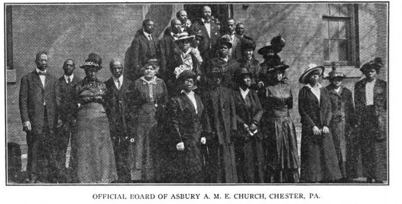 Image of Official Board of Asbury AME Church in Chester, Pennsylvania